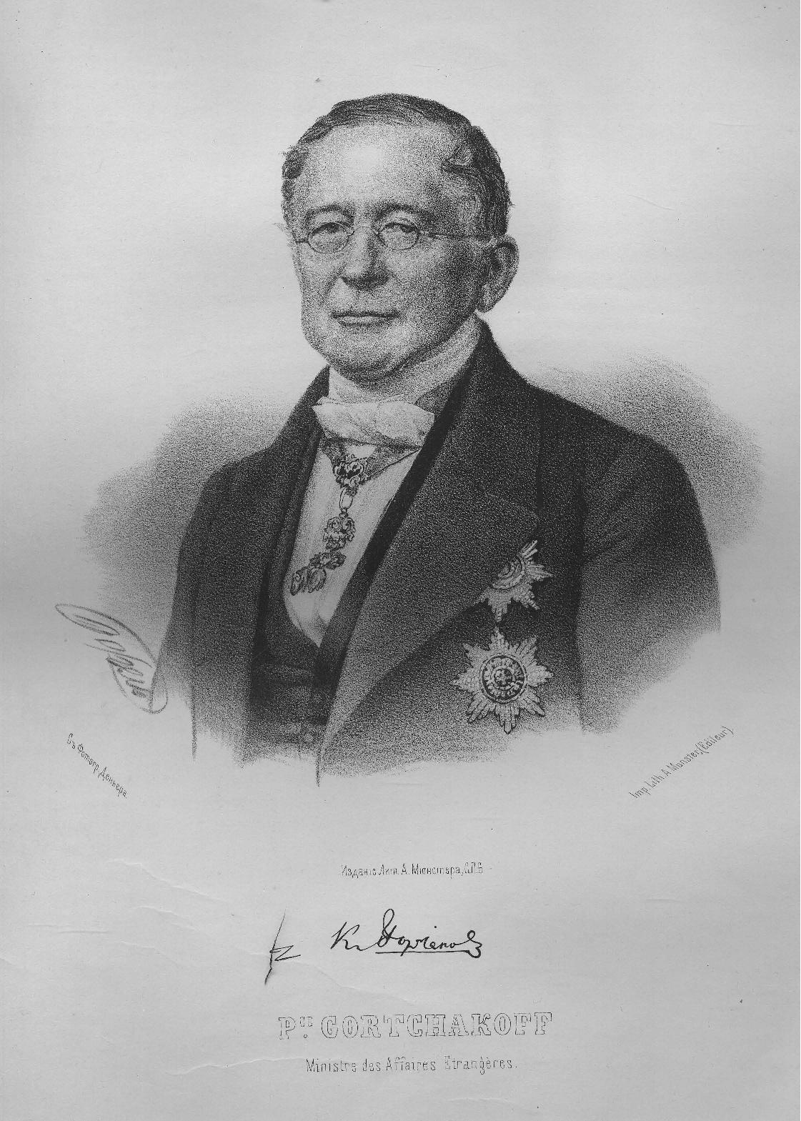 Alexander Gorchakov